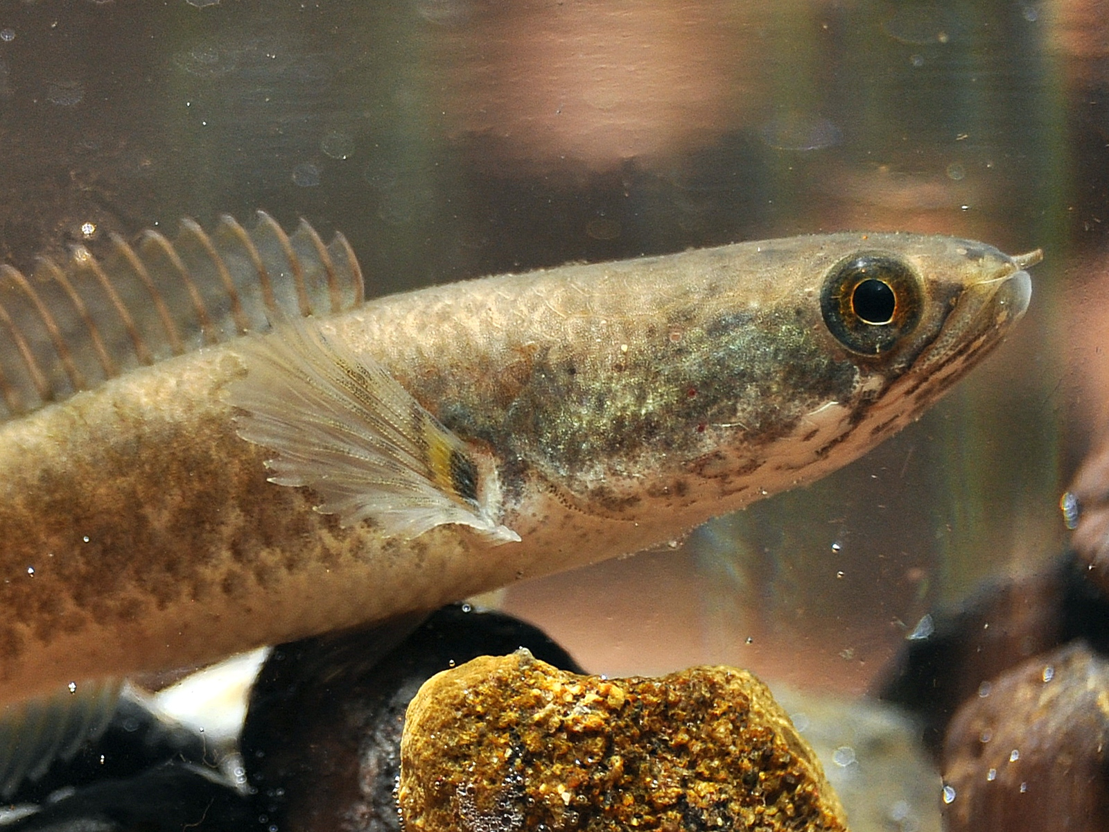 Dwarf snakehead, Channa gachua, 60mm SL. From Karawang, West Java. Left side. Dorsal fin 34, anal 22, pectoral 13, pelvic present.